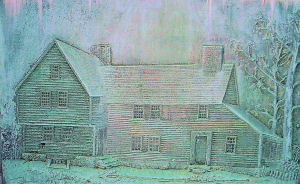 Picture of art work of James Avery's home on Avery Memorial